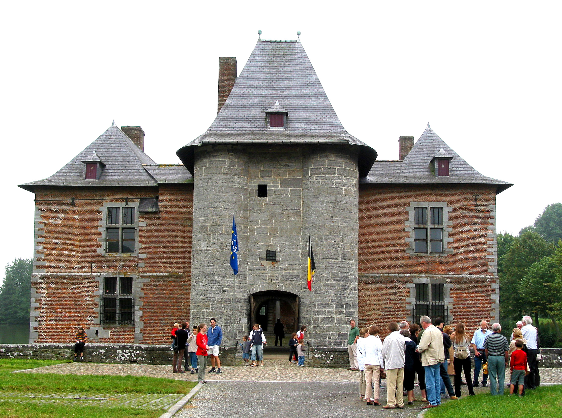 Noville-les-Bois (Belgium), the Fernelmont castle (XIII/XVIIth centuries).